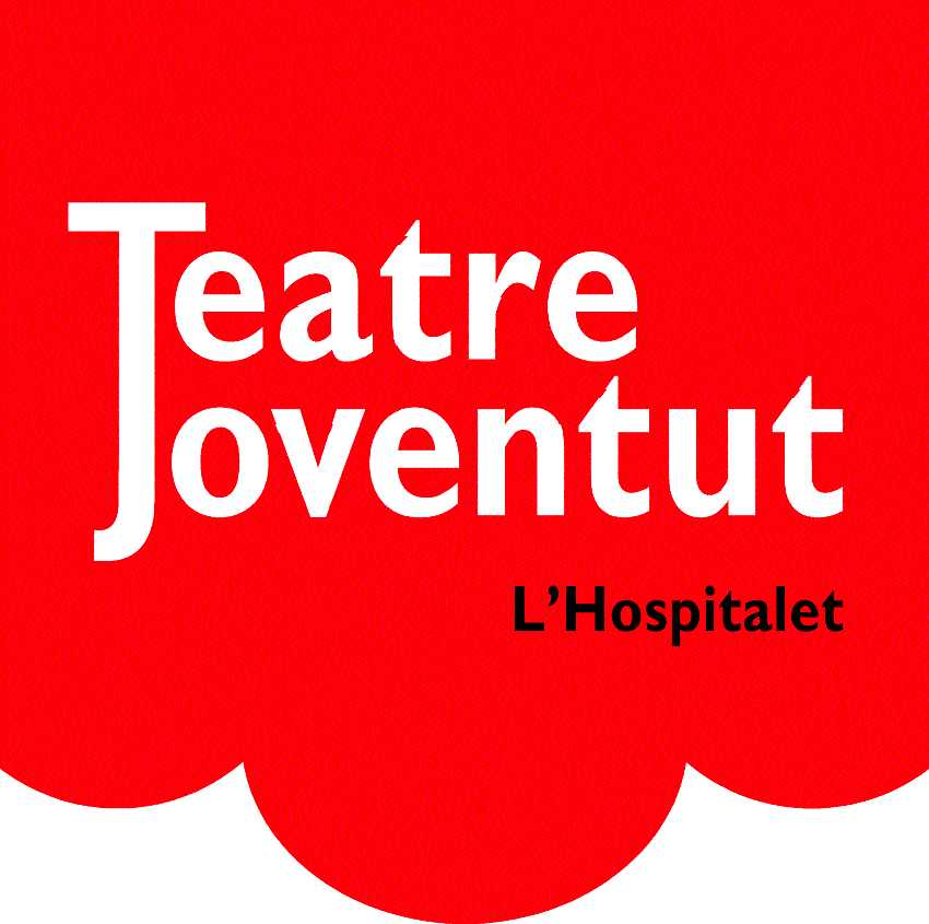 Logo Teatre Joventut